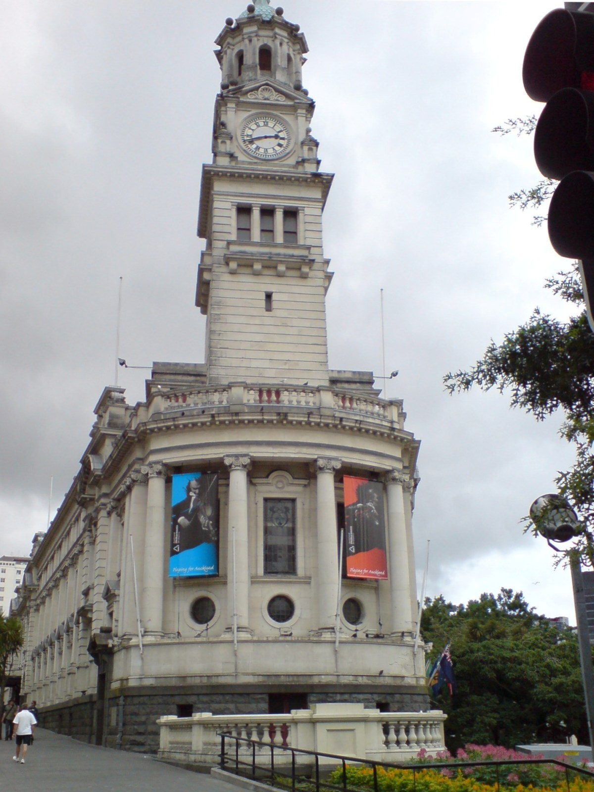 Auckland Town Hall as seen looking south from the western-side footpath of Queen Street|Queen Street in Auckland City, New Zealand.